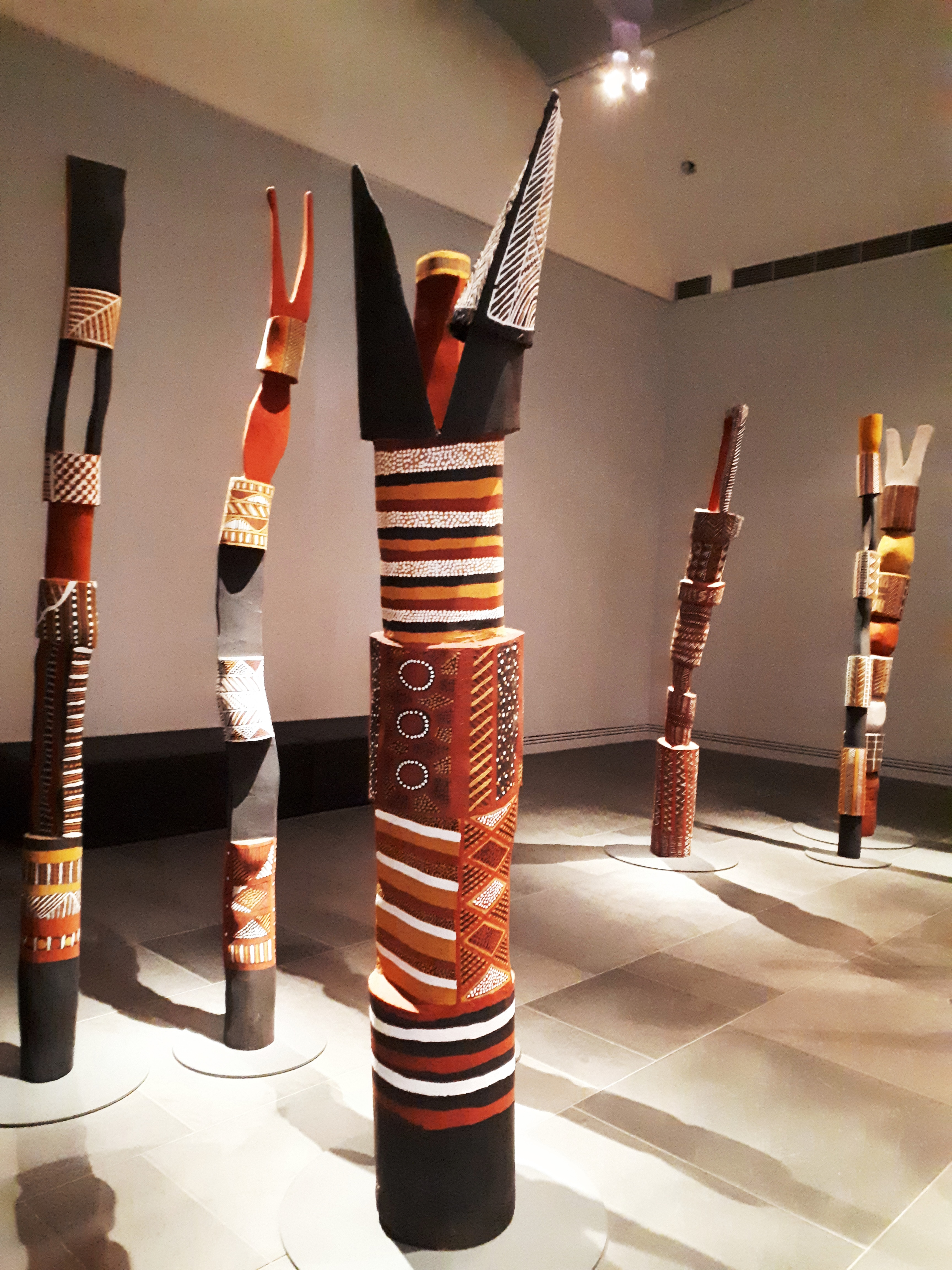 The Pukumani or Pukamani ceremony ensures that the spirit will find its way to the spirit world. Carvers carve and paint the tutini (grave posts) that are erected around the mounded grave. (This photo is from the 2020 Tarnanthi exhibition at the Art Gallery of South Australia.)